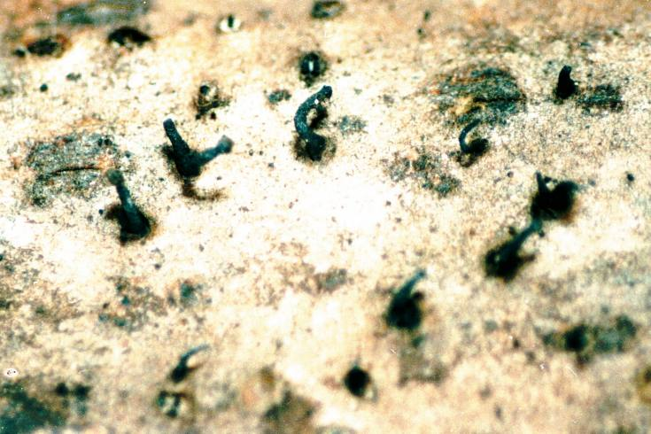 Phaeocalicium curtisii (Tuck.) Tibell, 1975 (photograph of a herbarium specimen taken through a dissecting microscope (x18) showing the stubble or pinhead structures) Growing on a dead branchlet of Rhus glabra L. (Smooth Sumac) at Owings Mills, Baltimore County, Maryland, USA; collected and identified by Elmer G. Worthley (No. LH-253, 20 Apr 1950); specimen is now in the Lichen Herbarium of the New York Botanical Garden.